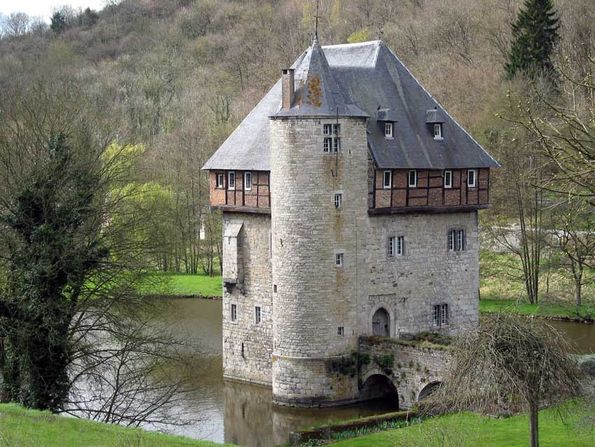 Crupet (Belgium), the tower (Keep) Carondelet XIIIth century. Walon: Donjon do tchèstê dès Carondelèt (XIIIn.me sièke) a Crupèt, è Bèljike.